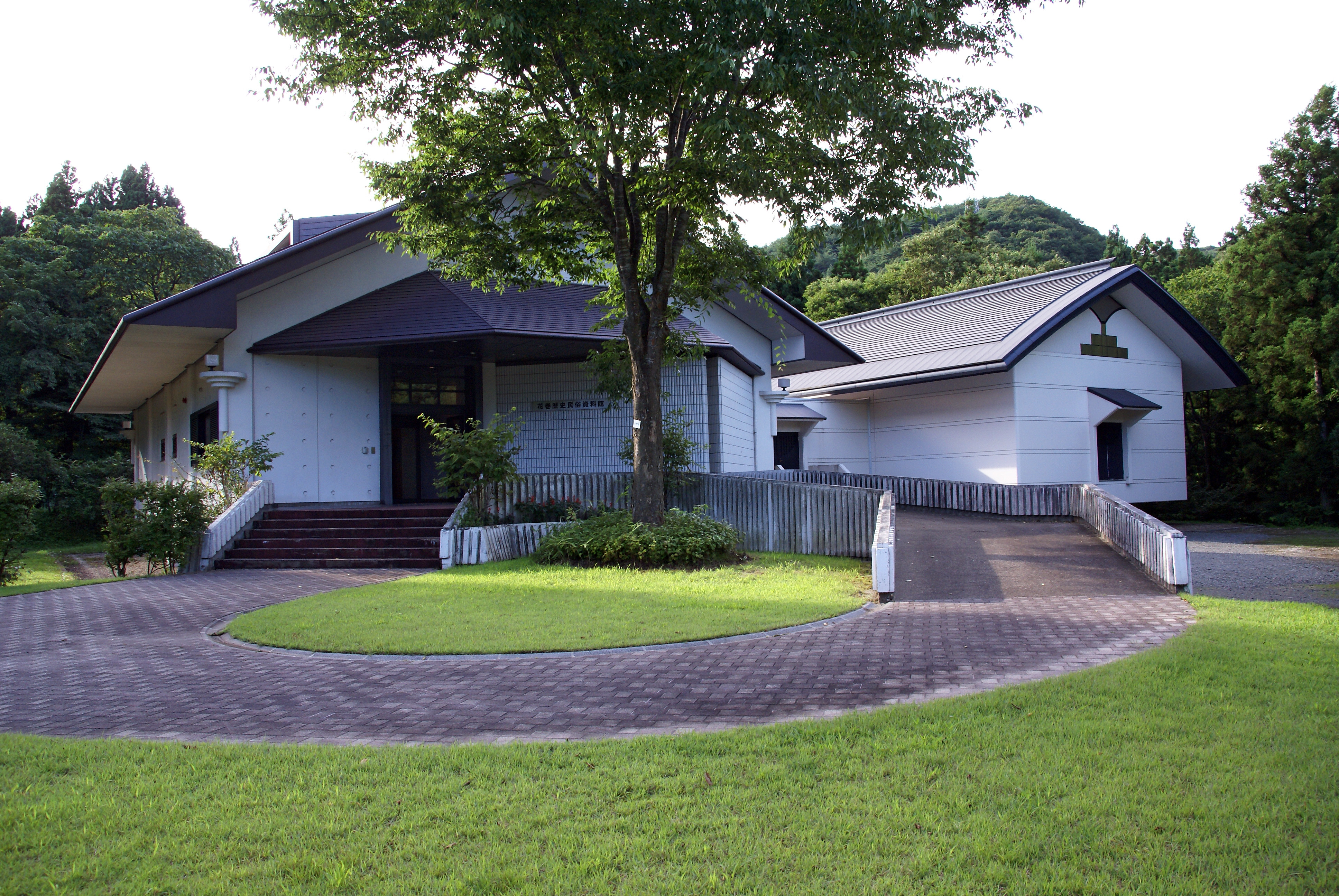 Hanamaki City Museum of History and Folklore in Hanamaki, Iwate prefecture, Japan